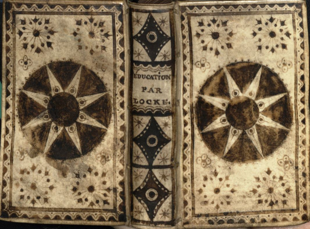 A binding decorated with pen work by and from the library of François Nicolas Bédigis (Cambridge HUL, Houghton Libr.)